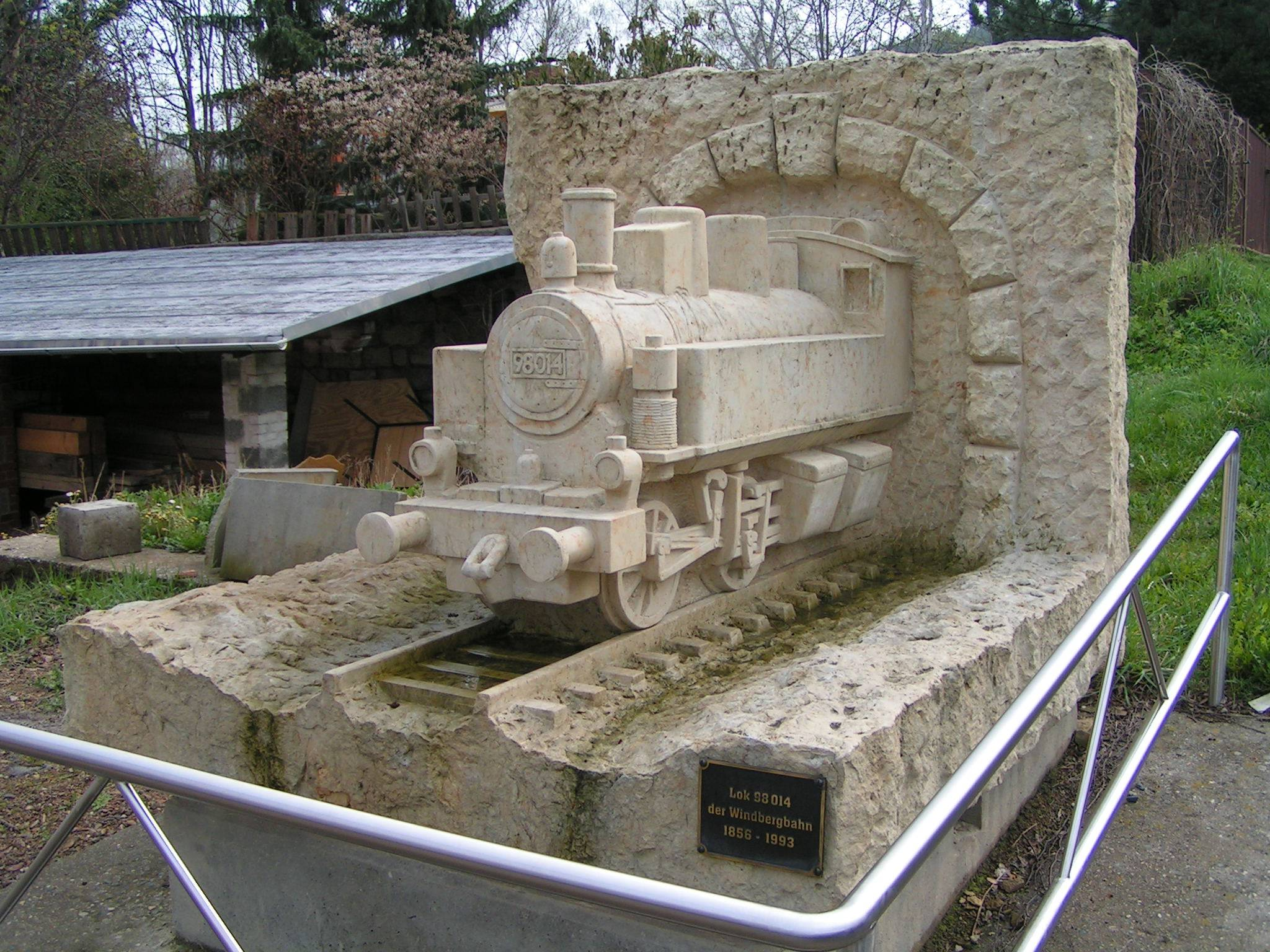 Windbergbahn memorial near the castle Burgk in Freital, Saxony, Germany